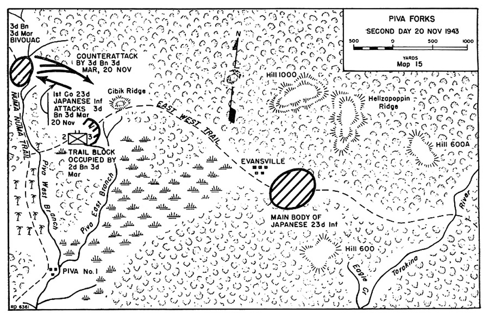 Map depicting movements of units during the second day (20 Nov 1943) of the Battle of Piva Forks, Bougainville.